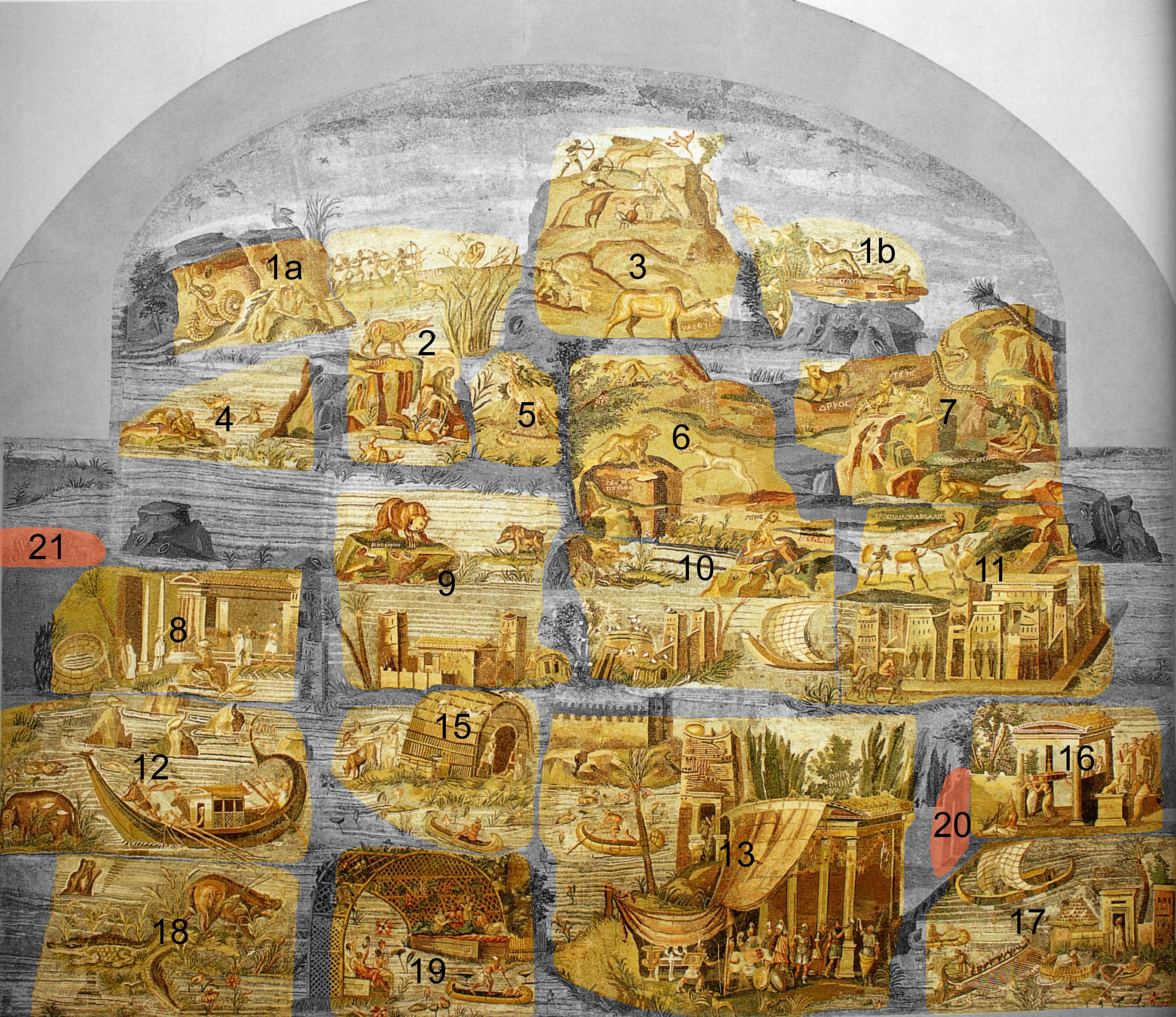 Nile mosaic from Palestrina (present state). Museo Nazionale Palestrina, Italy. Original parts (with section number) are shown in color.